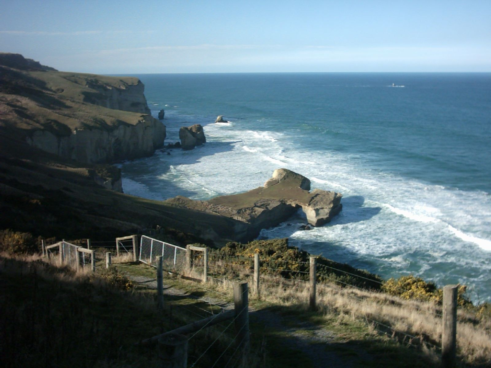 Tunnel Beach, close to Dunedin, New Zealand. The tunnel down to the beach is approximately at the base of the 'T' of the cliff peninsula, and goes down to the beach at the left.